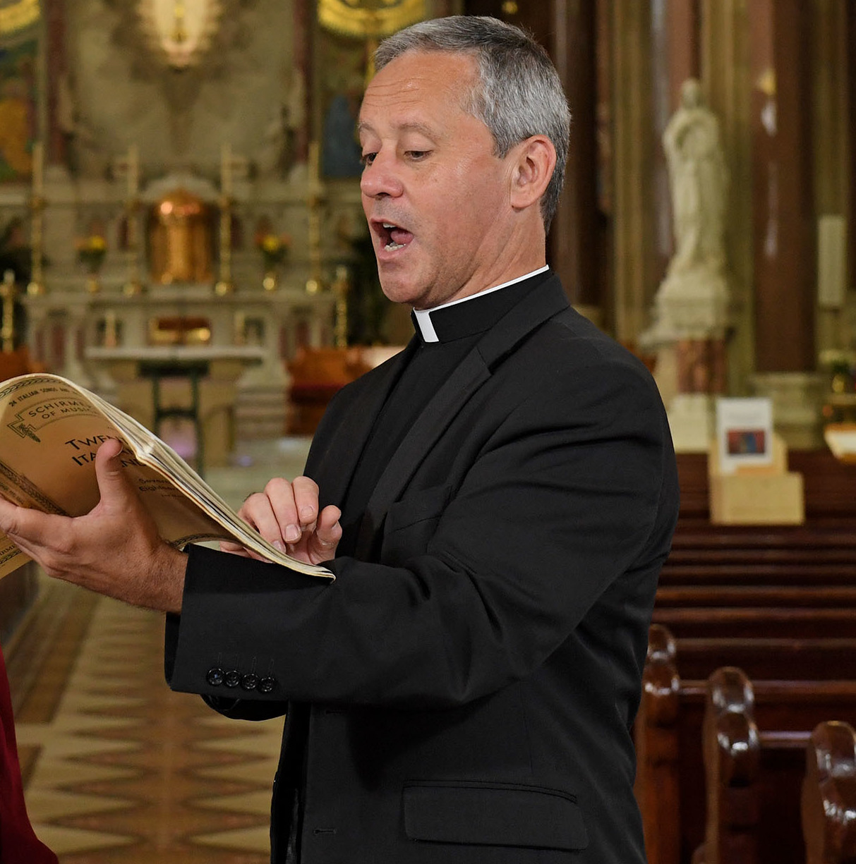 Fr Martin O'Hagan and Margaret Keys at Clonard Monastery